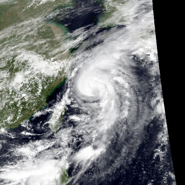 Tropical Storm Wayne on September 18, 1989 with winds of 45 mph and a pressure of 990 mbar.